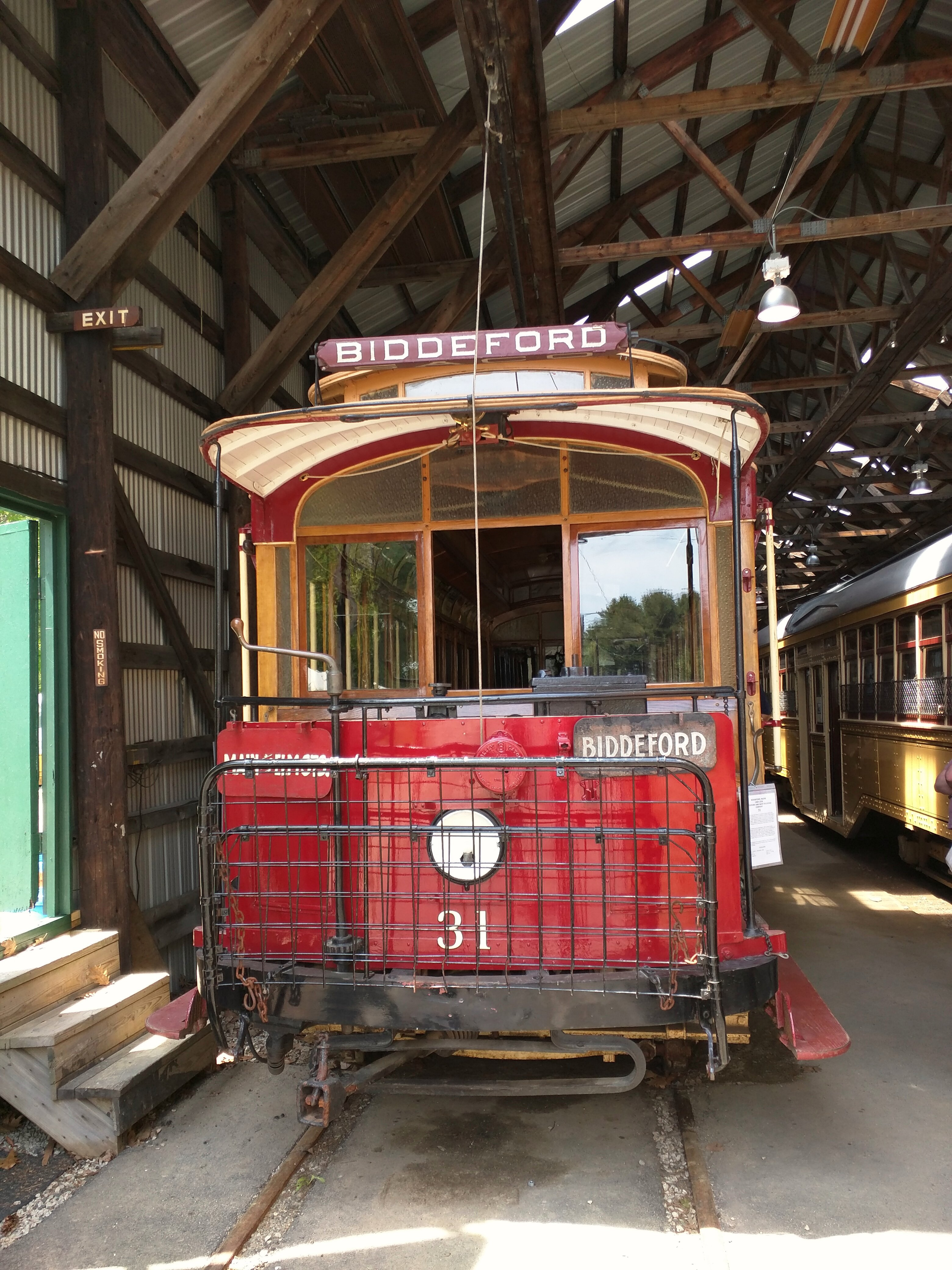 Biddeford & Saco Railroad streetcar 31 at the Seashore Trolley Museum